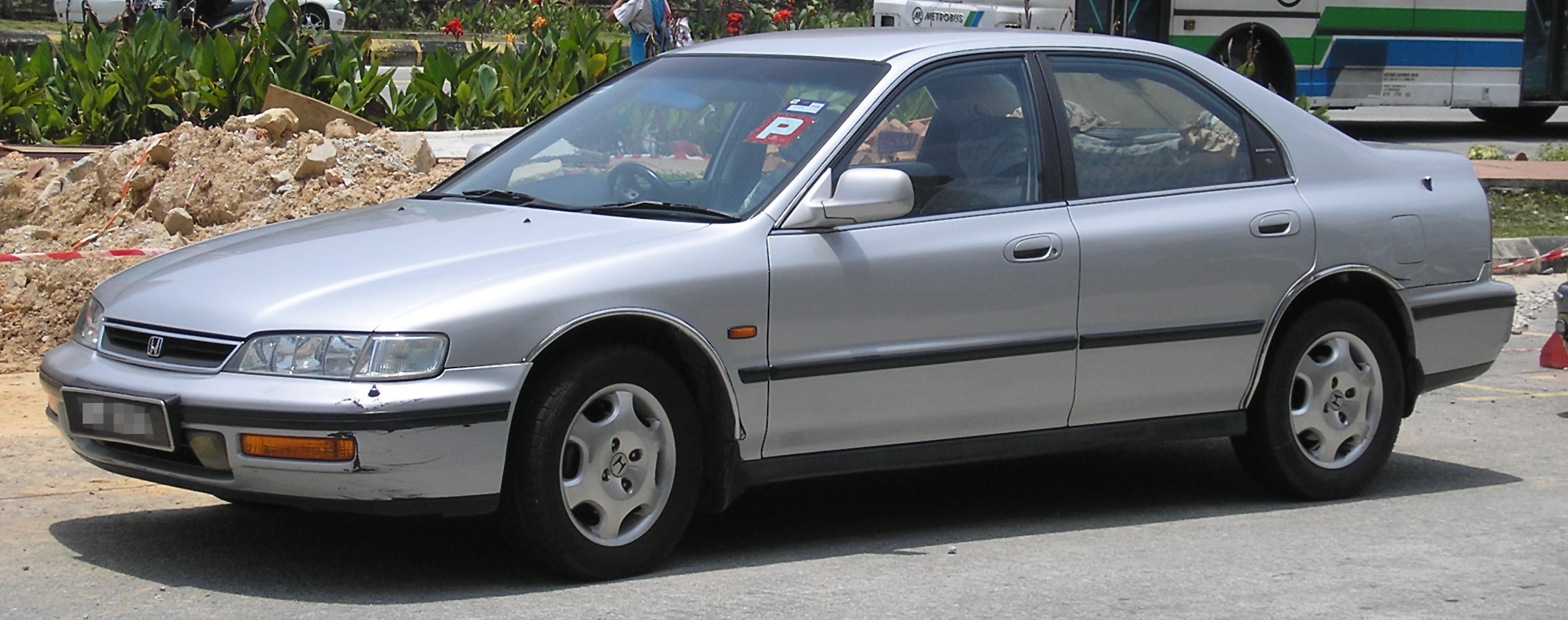 Front quarter view of a fifth generation, first facelift Honda Accord in Serdang, Selangor, Malaysia.